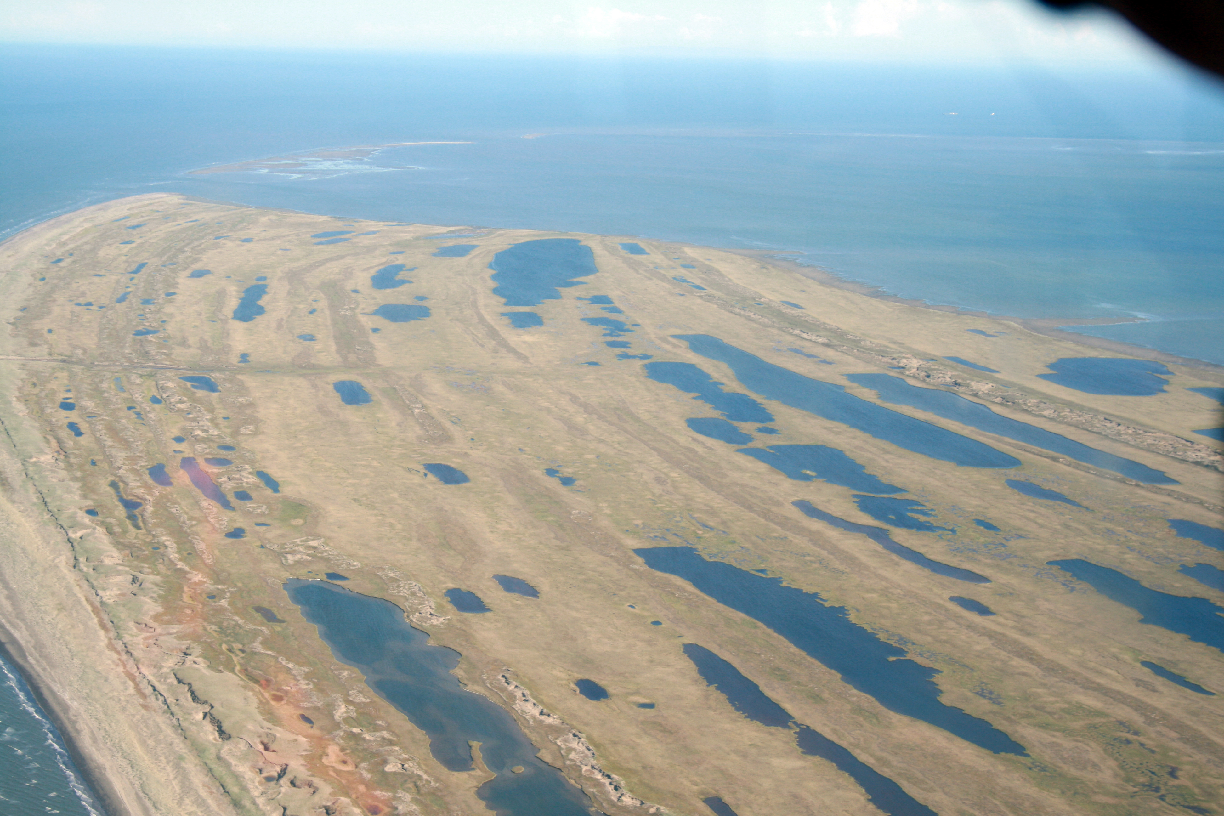 The tip of Cape Espenberg, Bering Land Bridge National Preserve, Alaska, USA